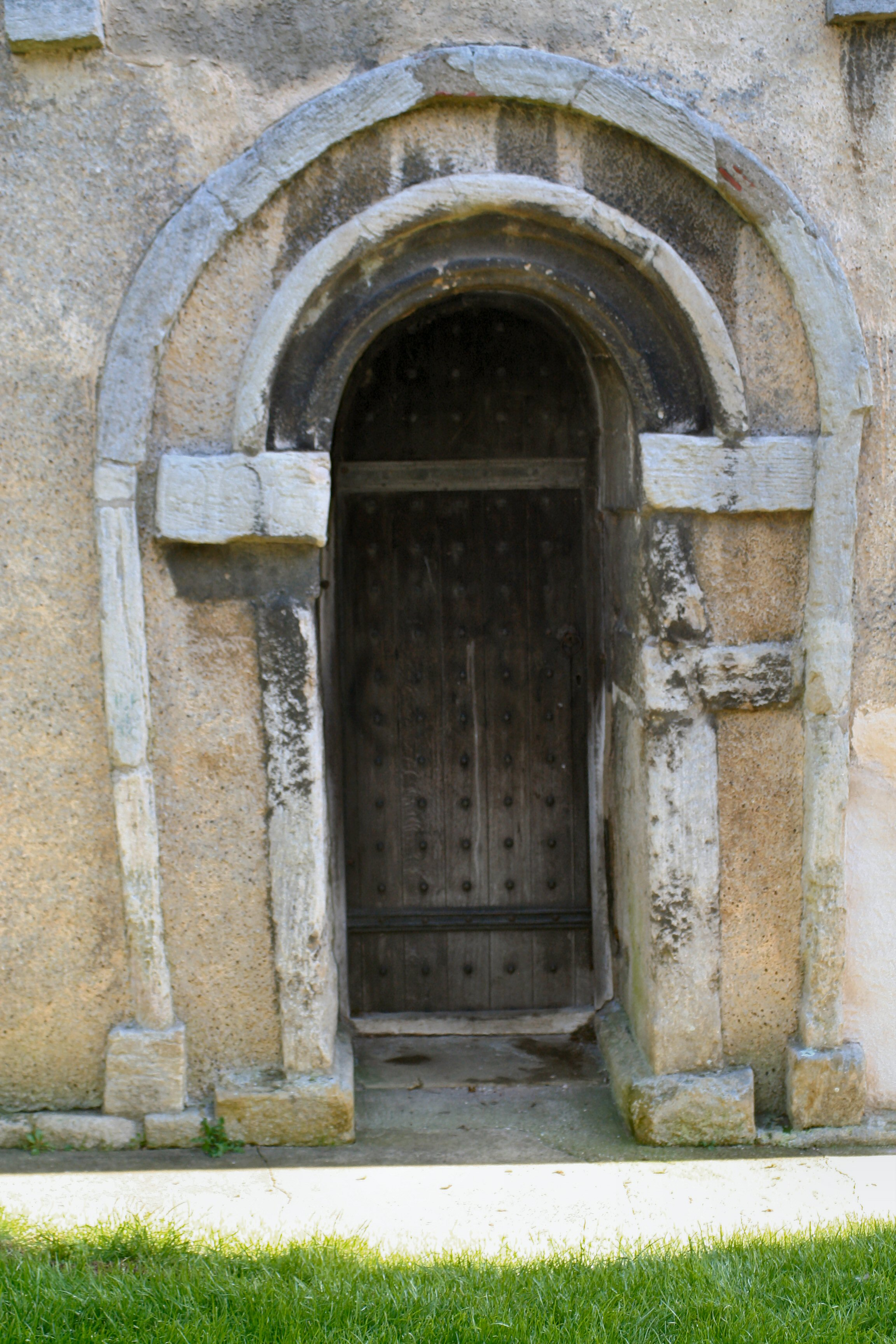 West doorway in the 10th-century Saxon tower of All Saints' parish church, Earls Barton, Northamptonshire